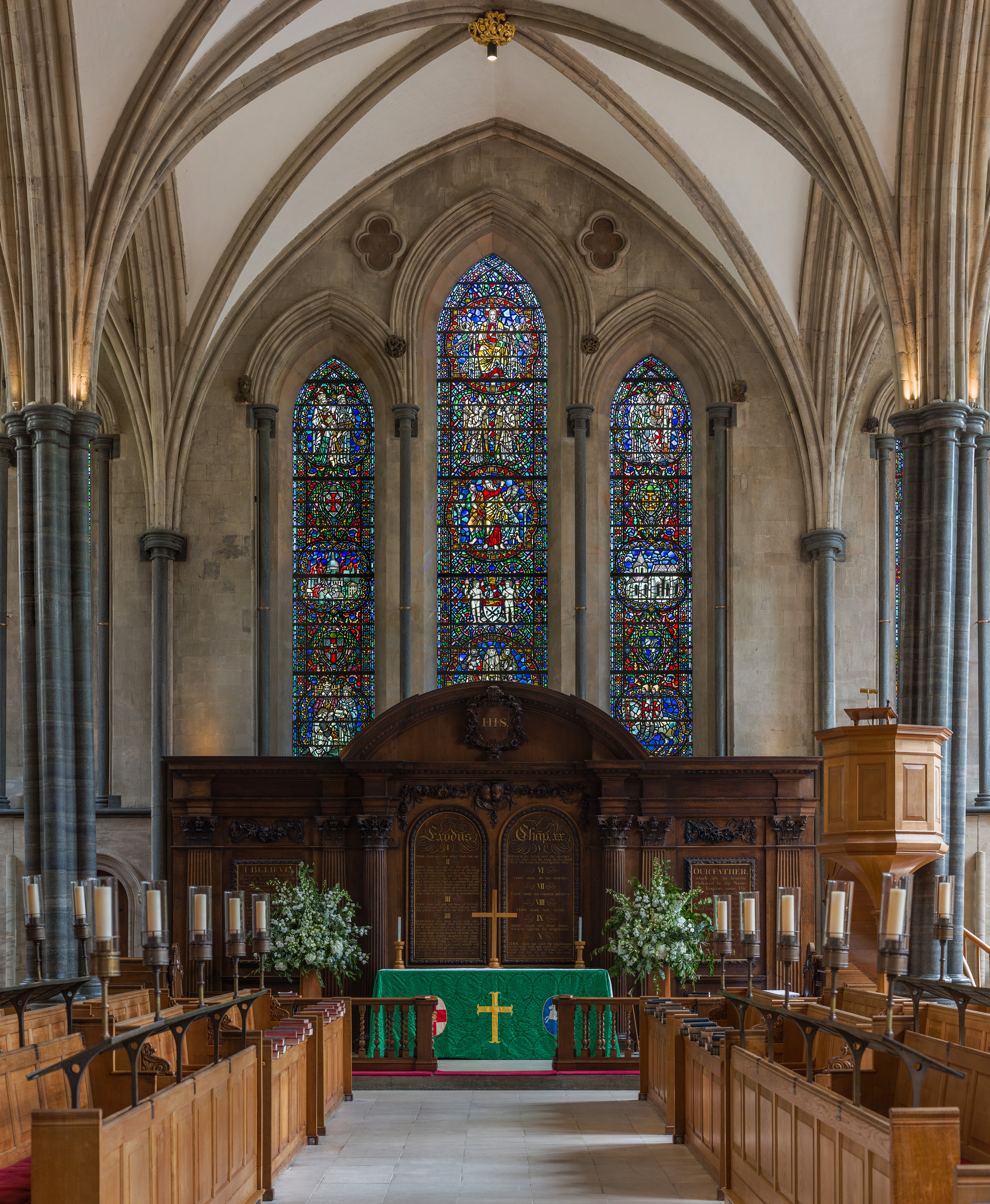 The altar and stained glass of Temple Church in London, England.